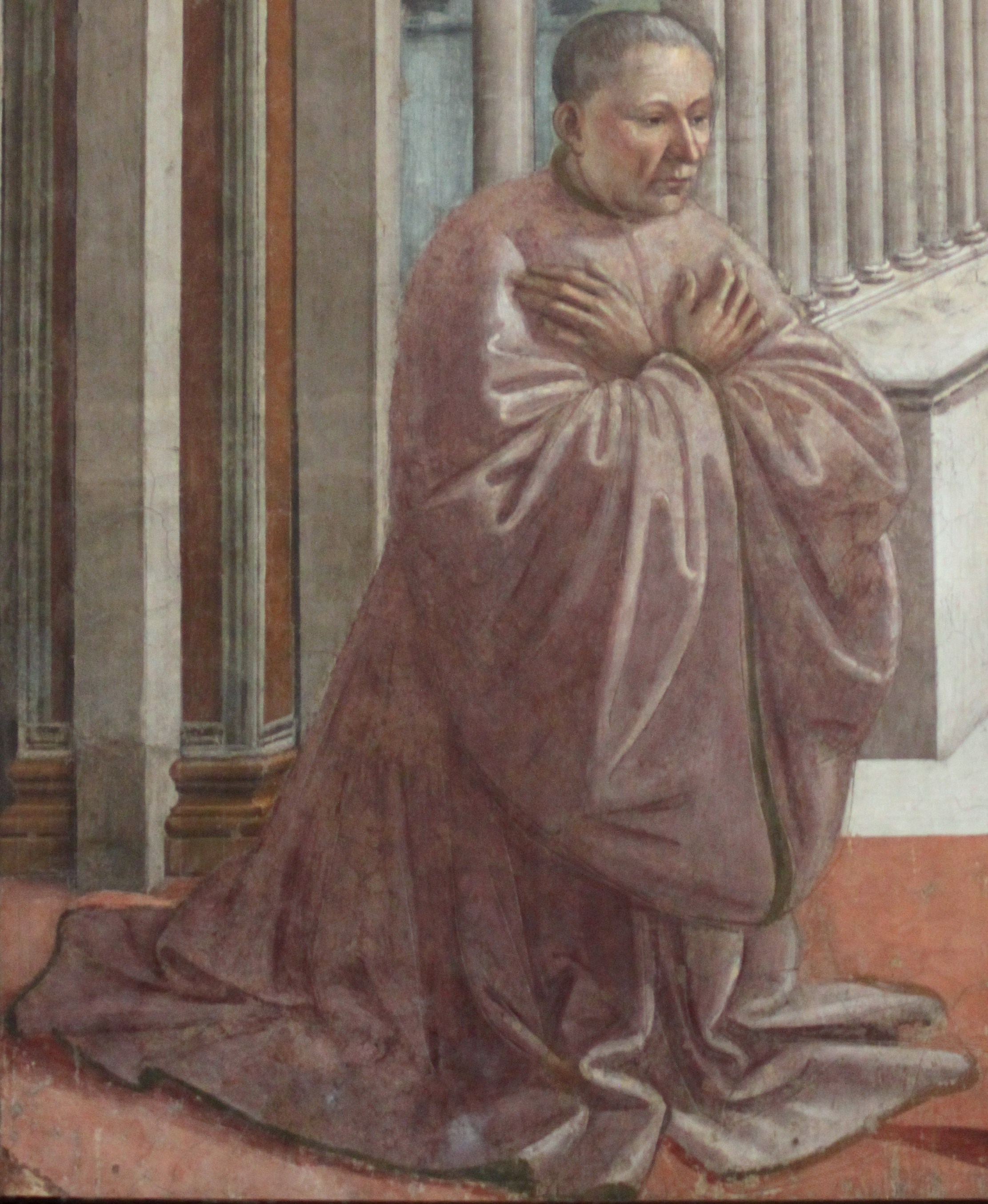 Detail from: Domenico Ghirlandaio and workshop, Portrait of Giovanni Tornabuoni, 1486–1490, fresco, Tornabuoni chapel, Santa Maria Novella, Florence